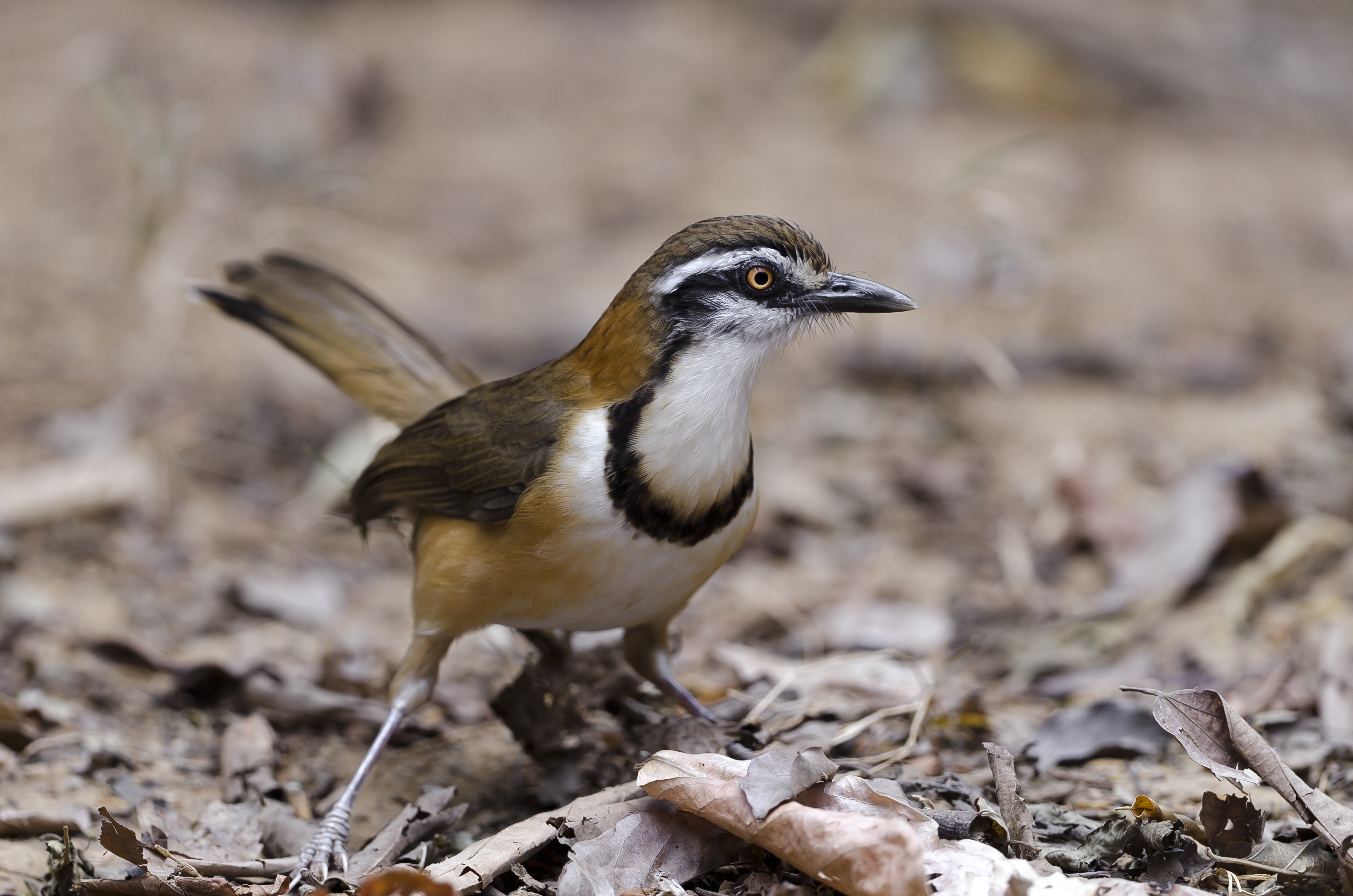 Lesser Necklaced Laughingthrush (Garrulax monileger) at Ban Song Nok, Phetchaburi, Thailand